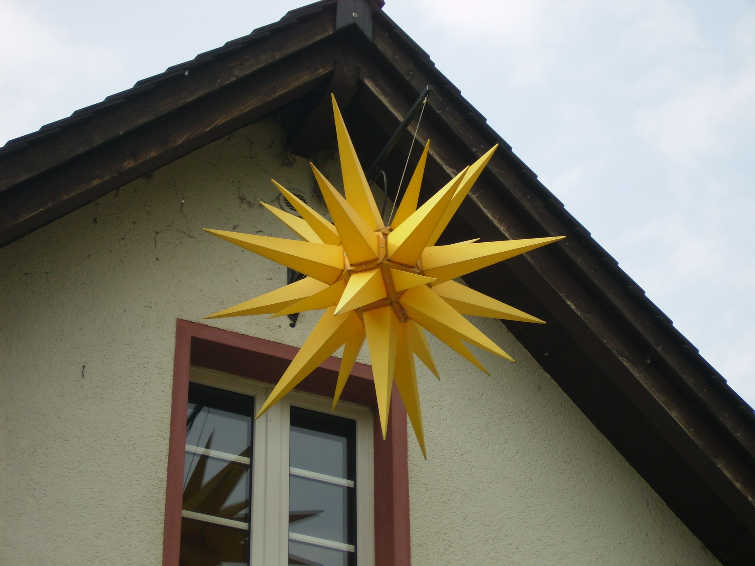 Herrnhut.